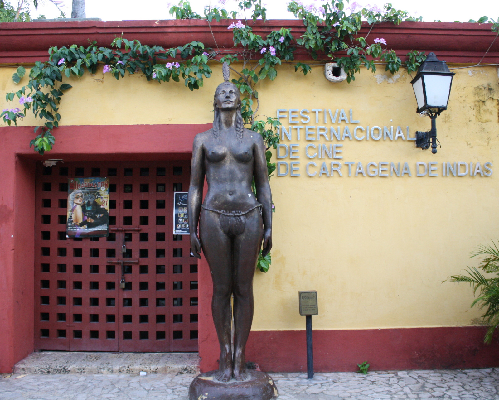 Statue of the India Catalina at the building of the Cartagena Film Festival (FICCI)